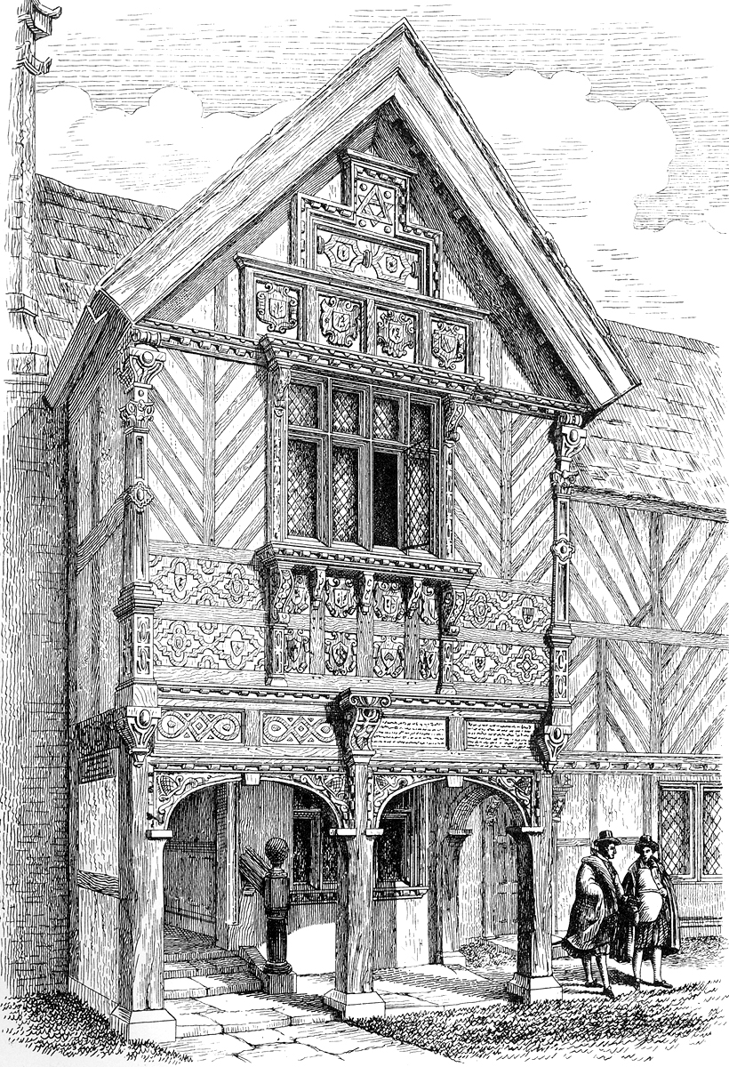 Engraving showing porch of the Old Grammar School, Nantwich, Cheshire; demolished in 1858